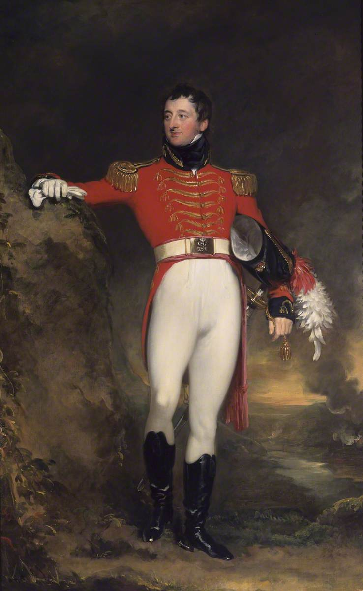 Lawrence, Thomas; Lieutenant-General William Craven (1770-1825), 1st Earl of Craven; National Army Museum